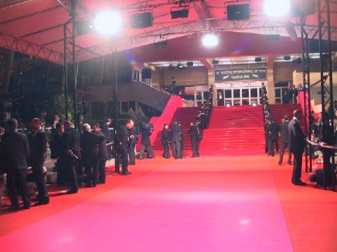 Red Carpet in Cannes. My own picture. Created by Rita Molnár 2001.